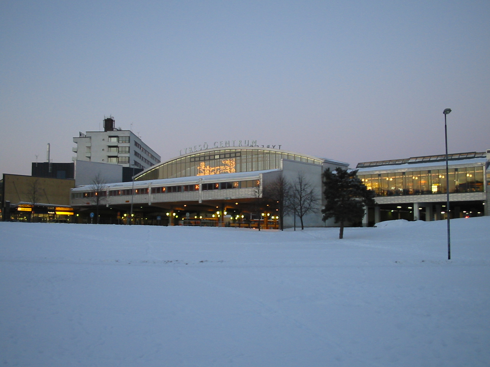 The Tyresö Centrum enclosed shopping centre, in Tyresö centre, Bollmora, Tyresö Municipality, Sweden, during winter. Image taken from south. The municipal hall of Tyresö is the tall building on the left. It is completely enclosed by the shopping centre The Tyresö centre bus terminal is beneath the bridgelike structure of the shopping centre.